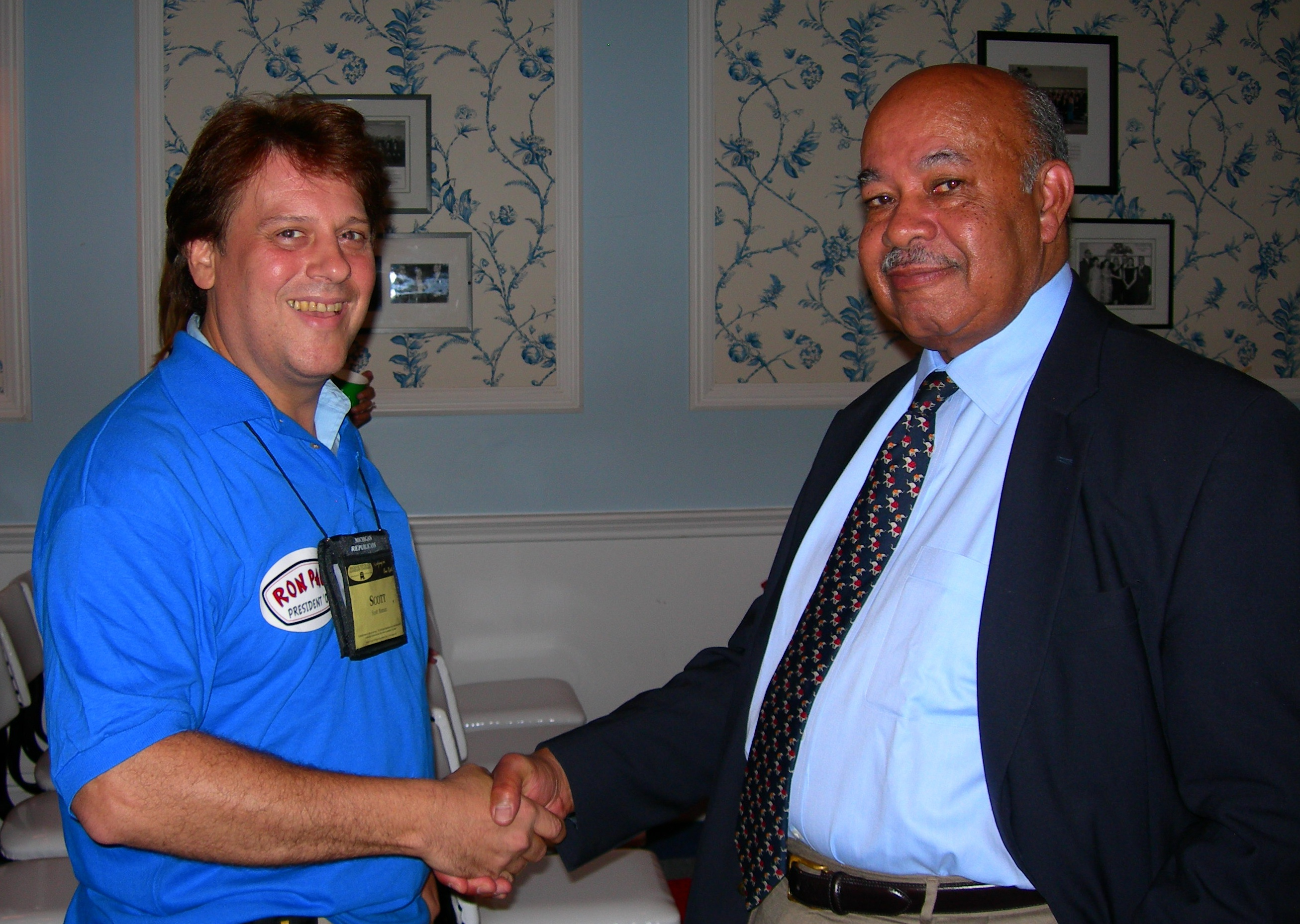 American Civil Rights Institute founder, Ward Connerly greets Michigan Politician Scotty Boman at the Mackinac Island GOP leadership conference. September 22, 2007.